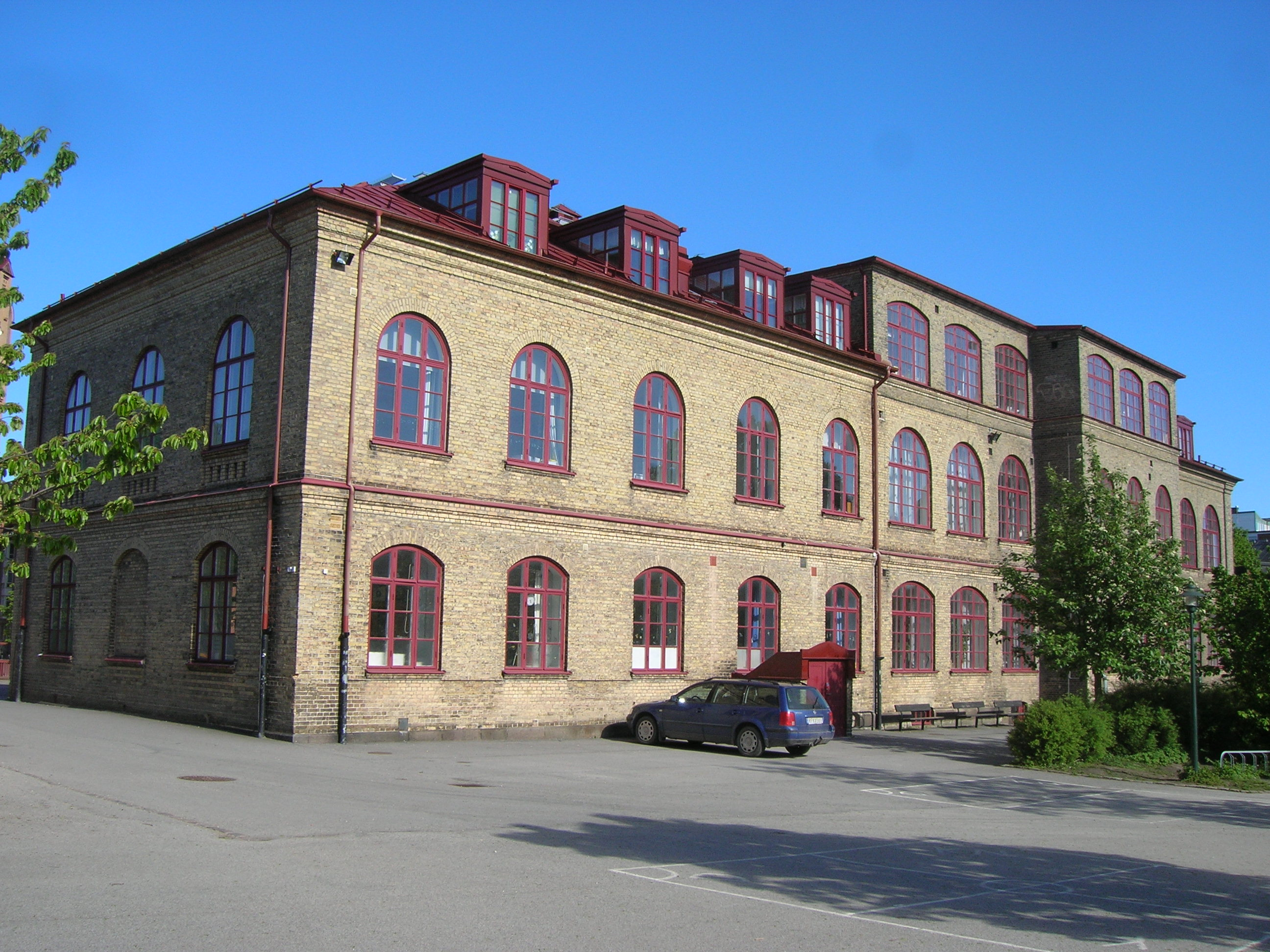 Vårfruskolan (School of Our Lady) in Lund, Sweden.